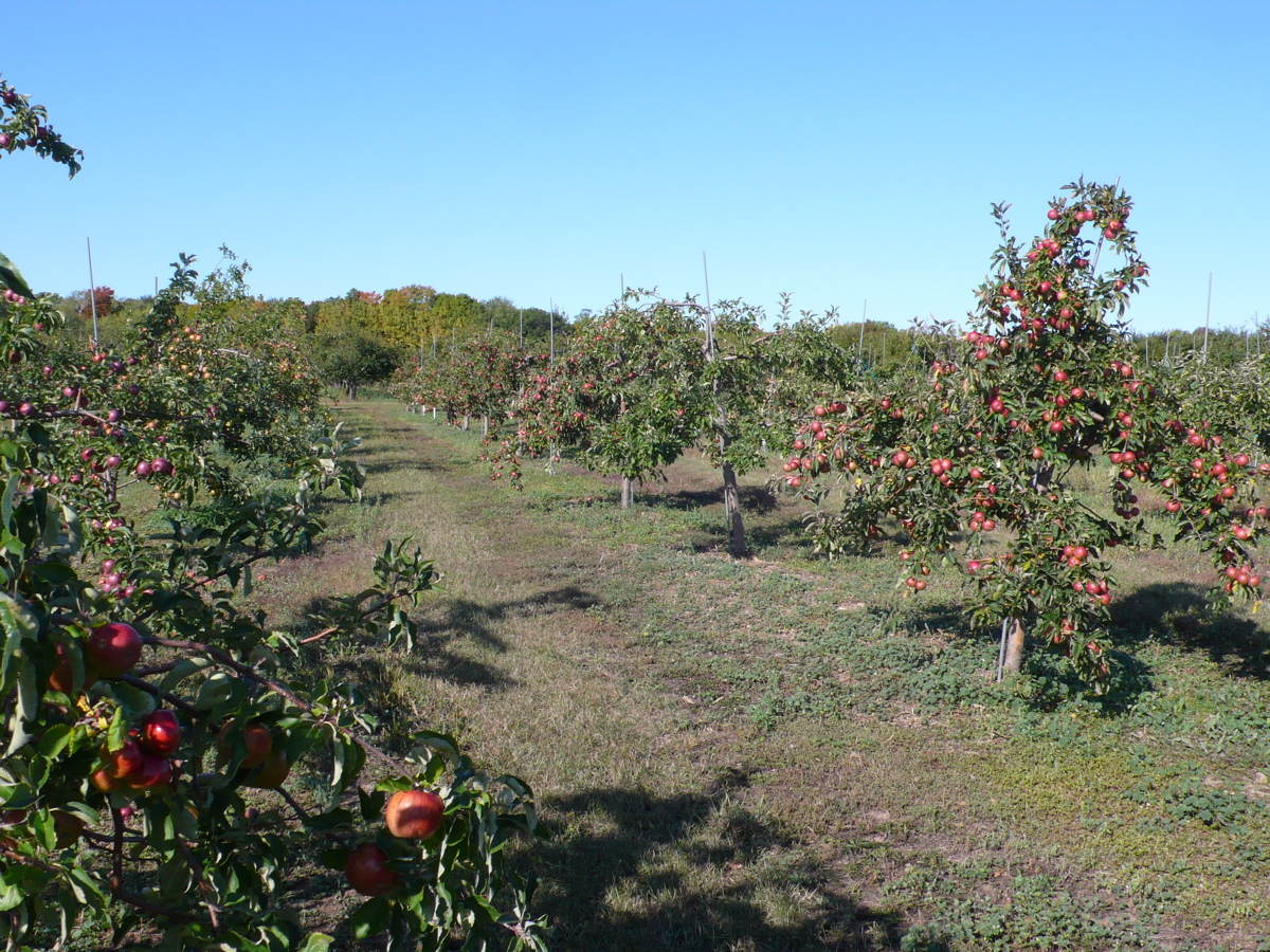 Apple trees; Lautenbach's Orchard Country, Fish Creek, Wisconsin